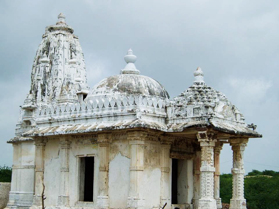 Jain Temple This is a photo of a monument in Pakistan identified as the SD-72